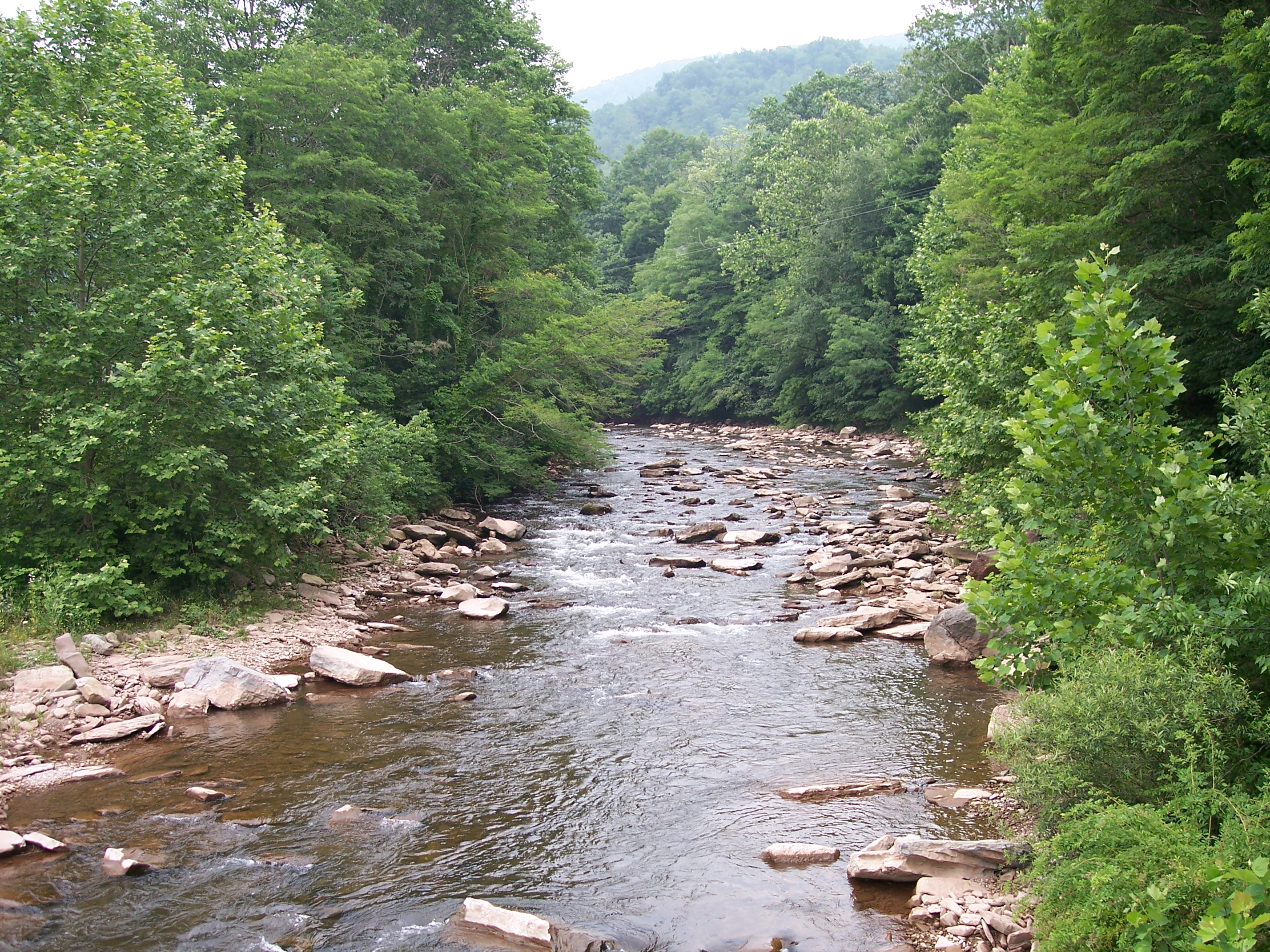 The Dry Fork near Harman, West Virginia, as viewed from County Road 32/9.